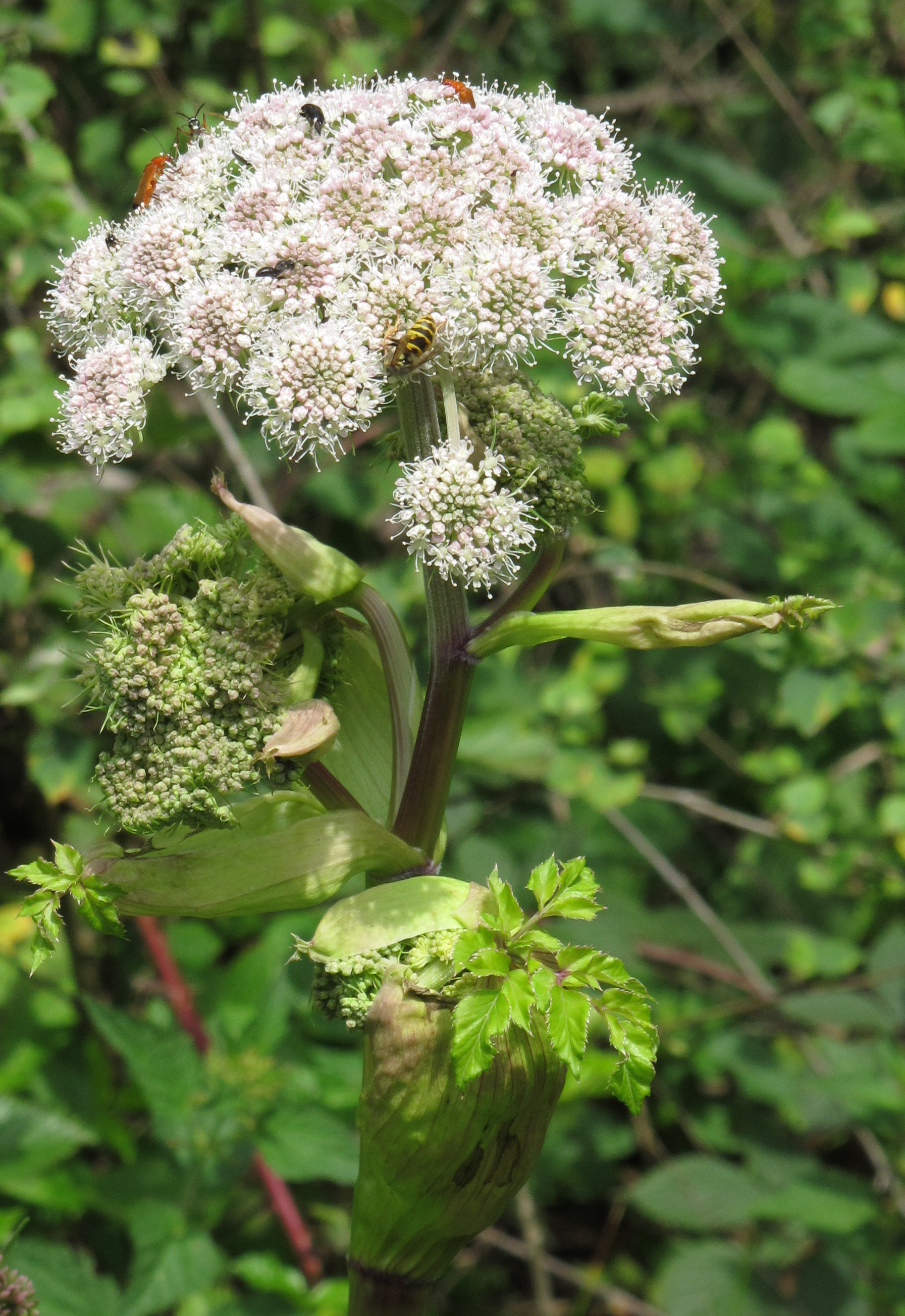 Wild angelica (Angelica sylvestris), forest "Birke" northeast of Dreieich-Offenthal, Germany